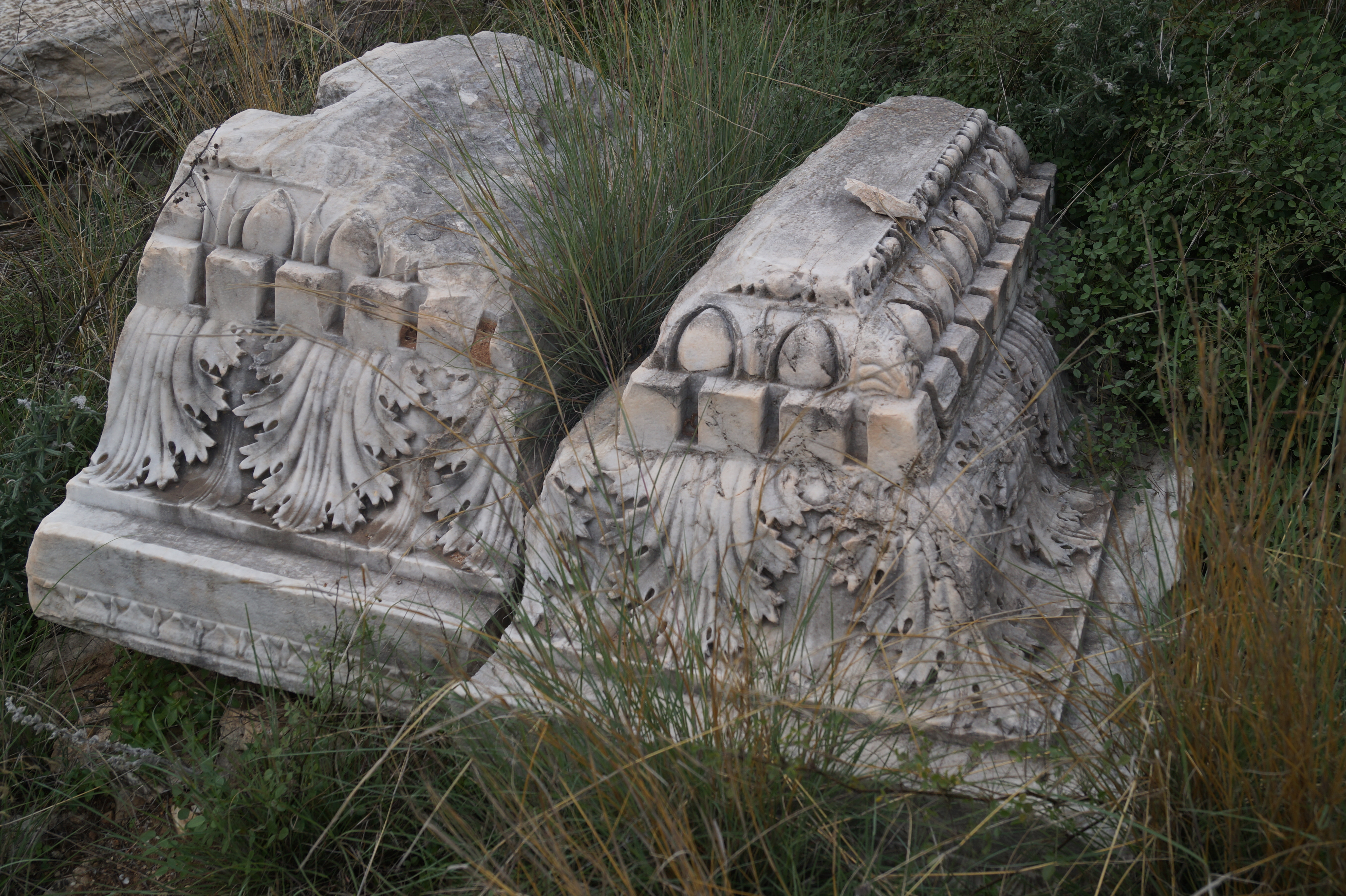 Kechries, Corinthia, Greece: Sima of the monumental roman tomb at Kenchreai.